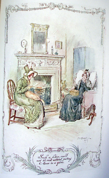 Persuasion, ch 21: Anne Elliot reade a letter from Mr Elliot which is putting her in a glow